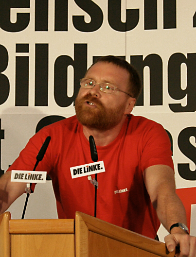 Germany politician of Saxony, Die Linke